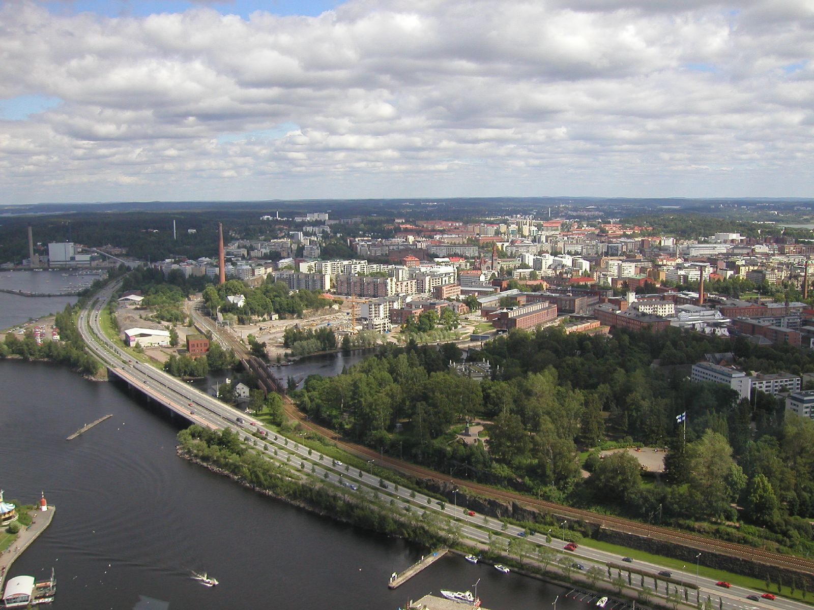 Tampere from the Näsinneula observation tower (168 metres high)